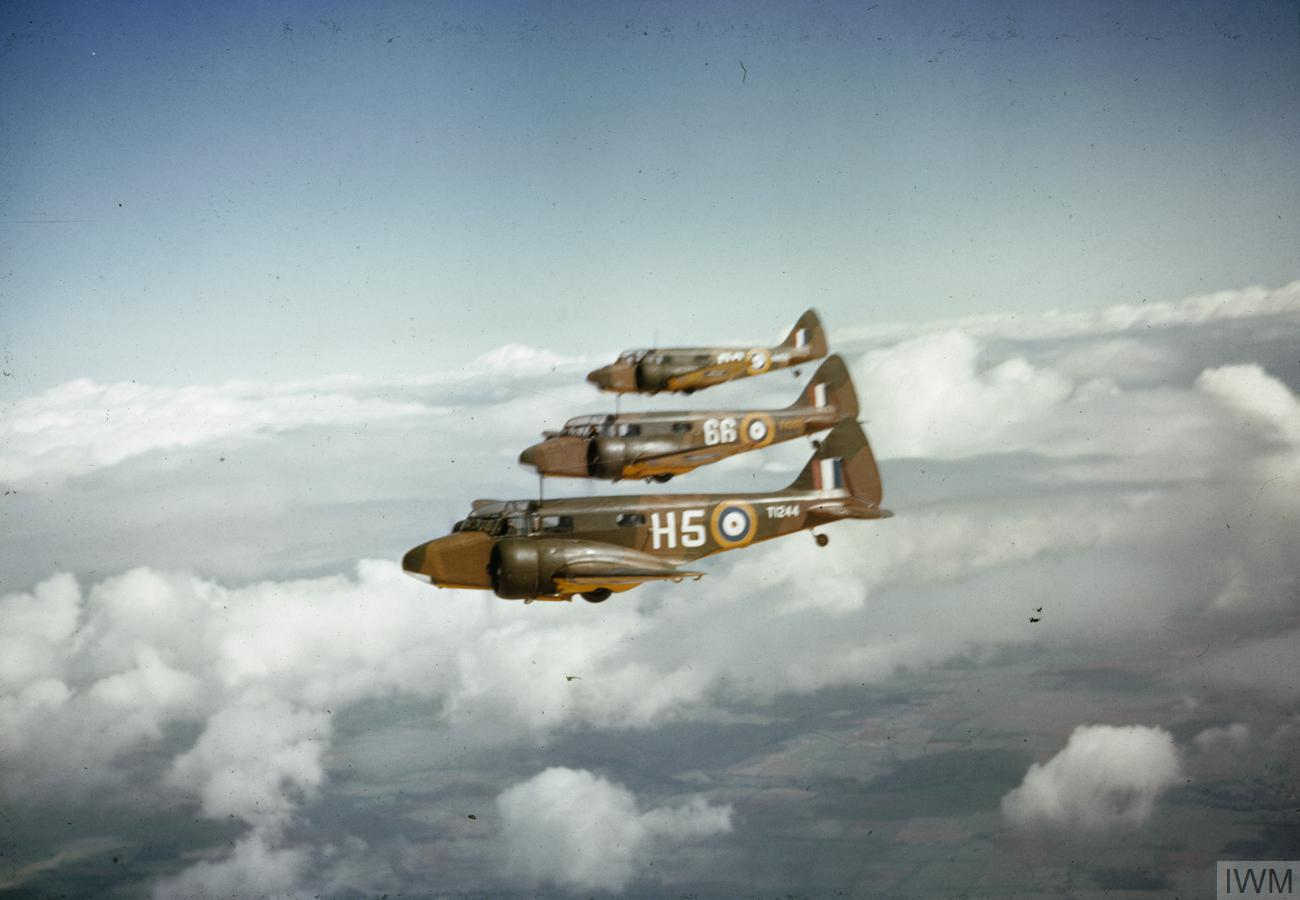 The Royal Air Force in Britain, February 1942 Three Airspeed Oxford Mark Is, serving with No 6 Flying Training School at Little Rissington, Gloucestershire, in flight above the clouds.